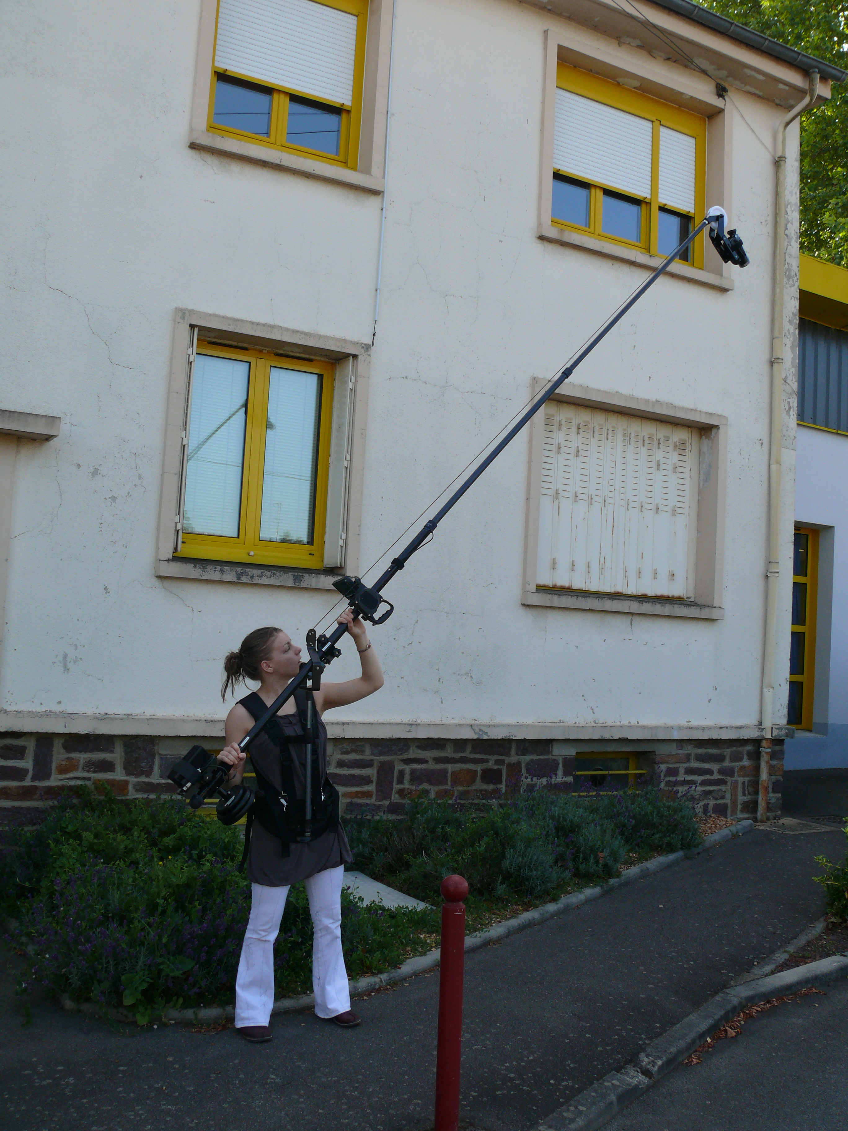 The Coolcam Standard camera crane